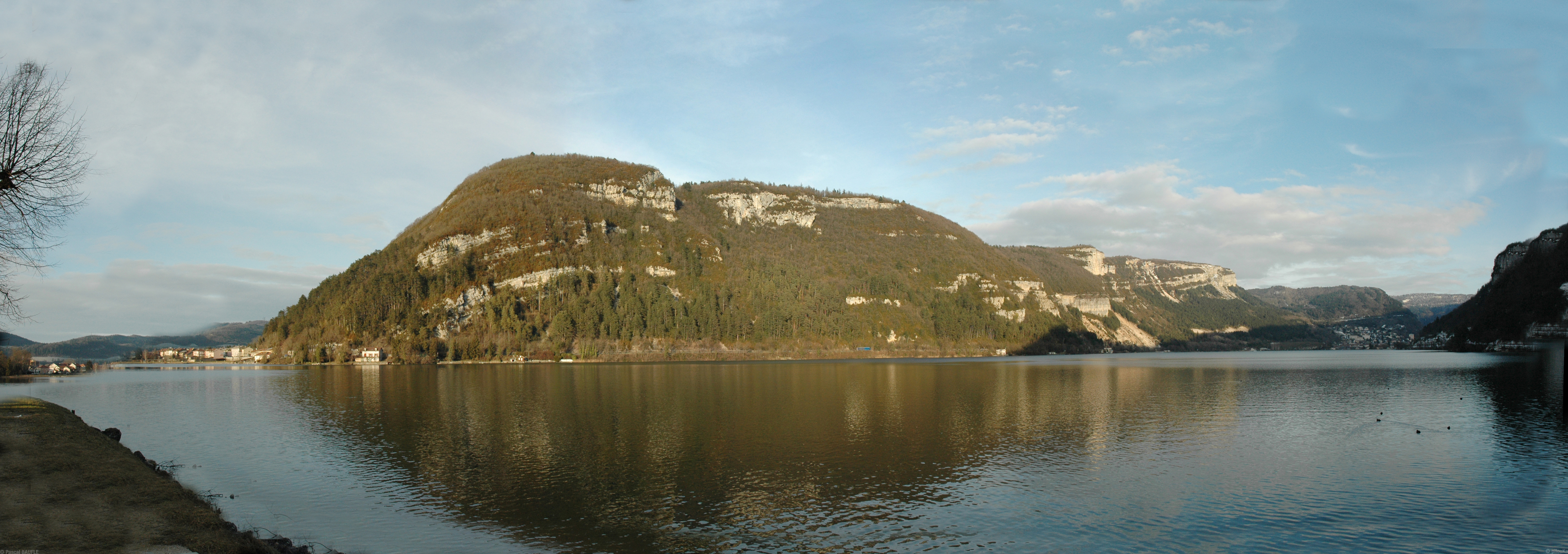 Lac de Nantua